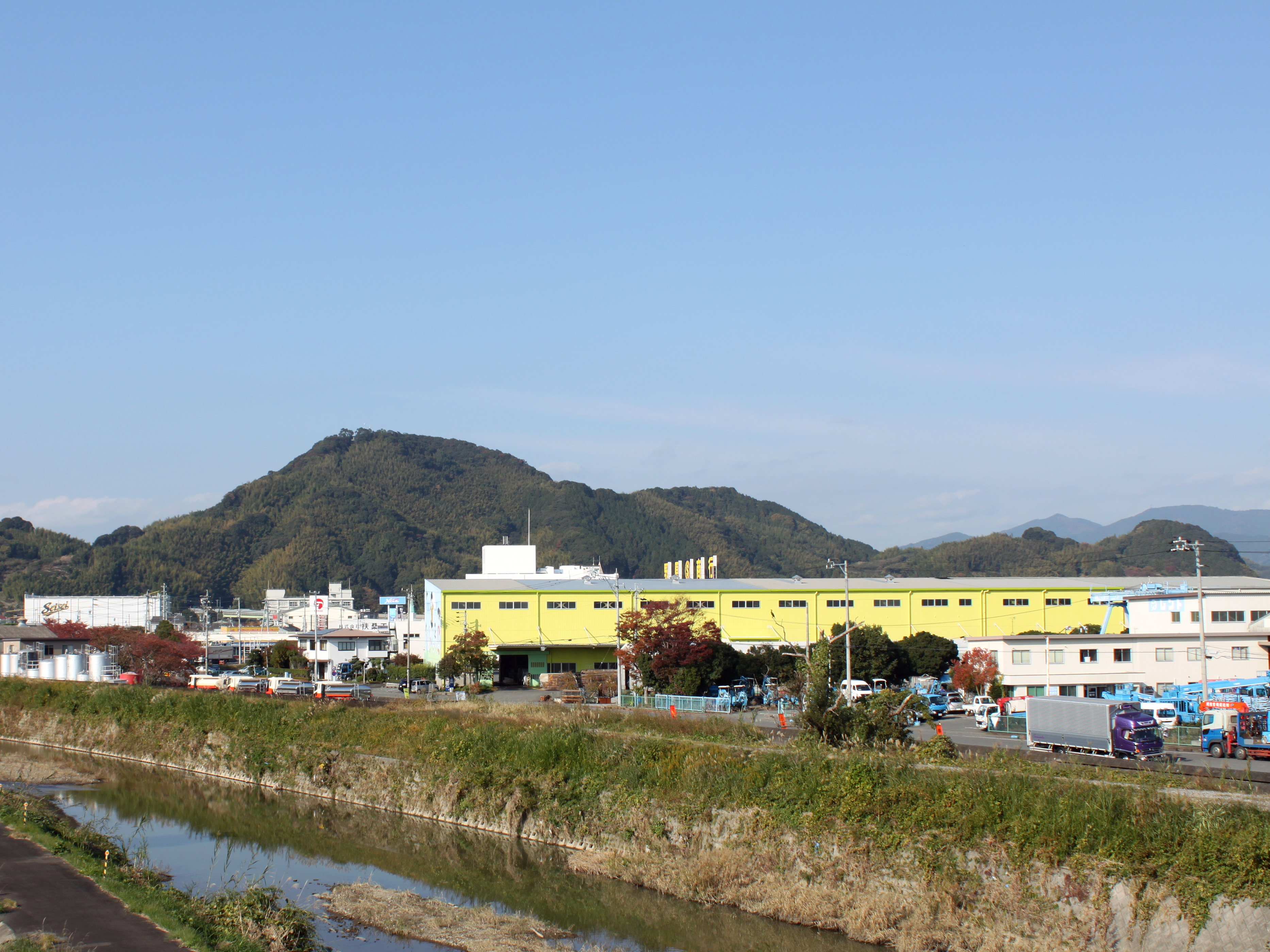 Mount Ushio as seen from the east.